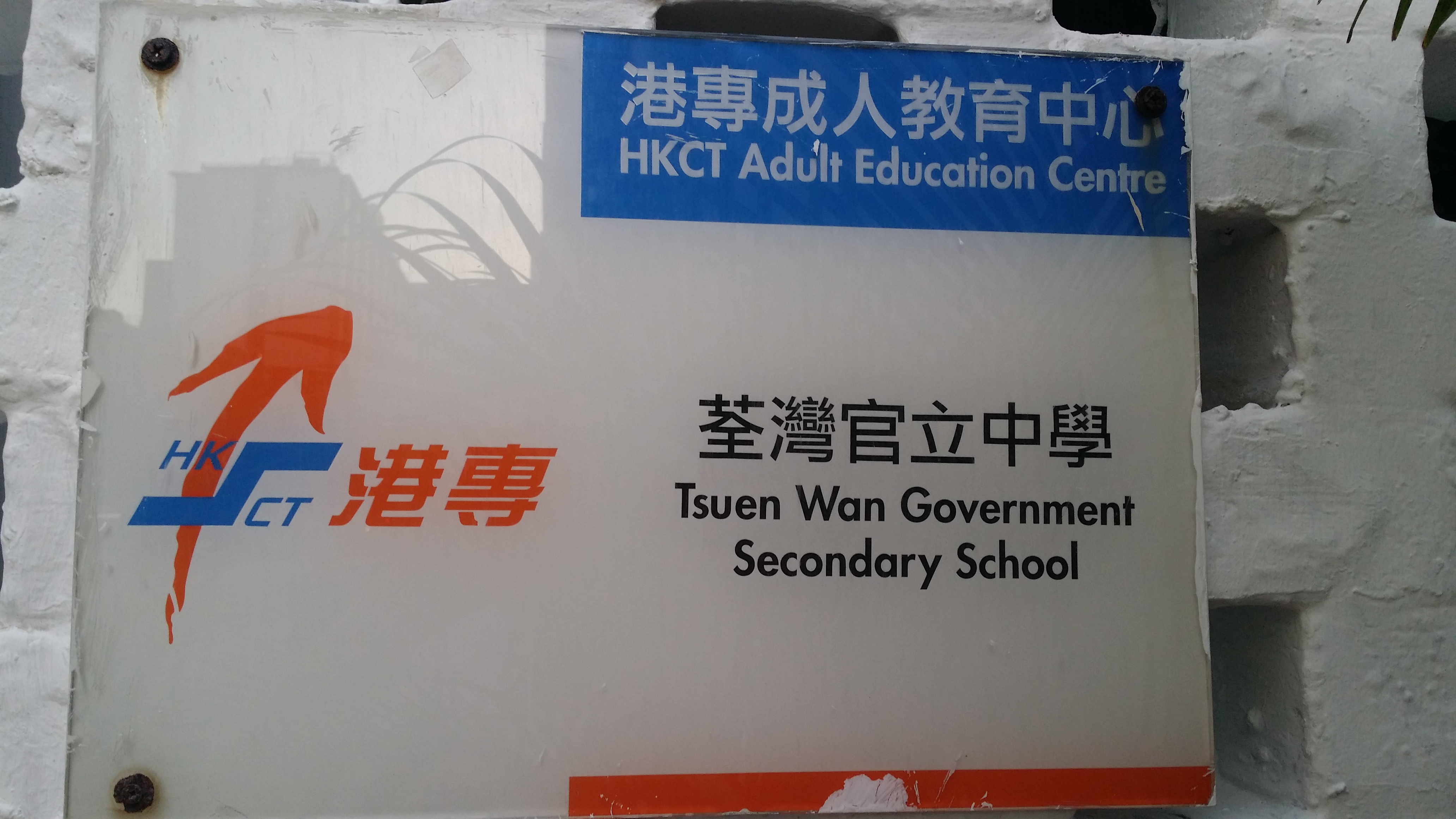 Tsuen Wan Government Secondary School (Evening School)